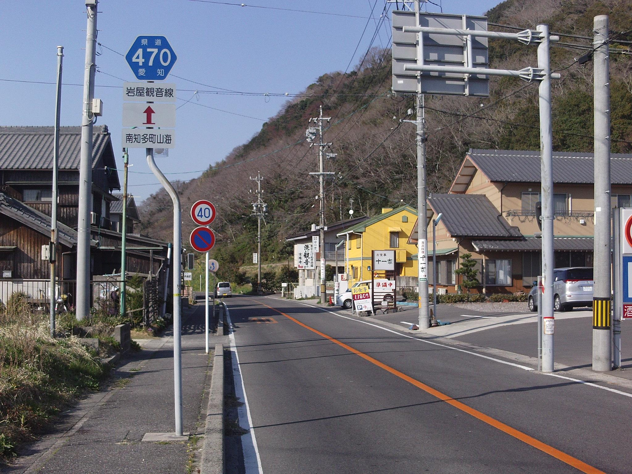 Ending Point of Aichi prefectural road No.470 in Yamami Minamichita-cho Chita-gun, Aichi.